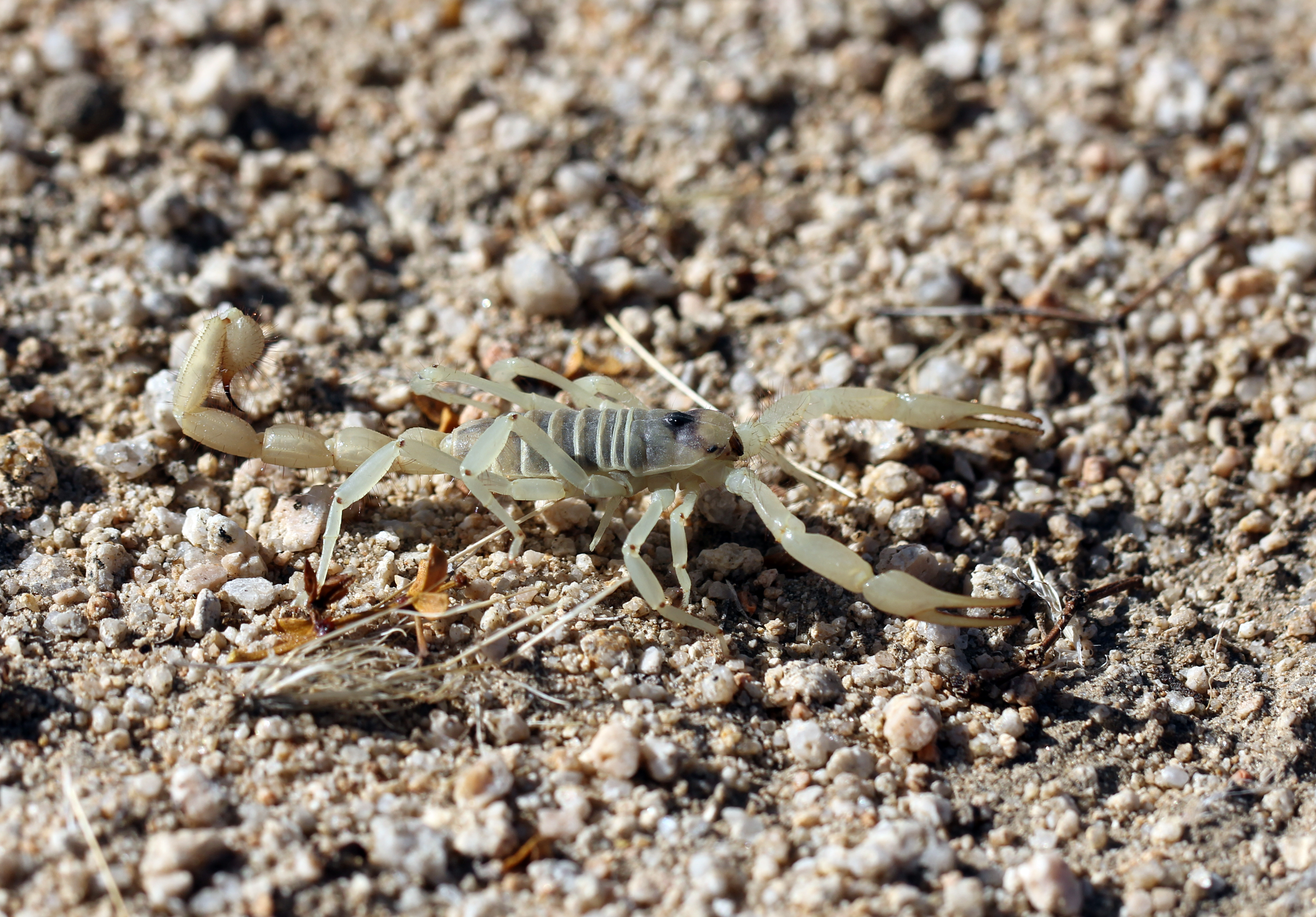 Giant Hairy Scorpion, Hadrurus sp. NPS/Cathy Bell